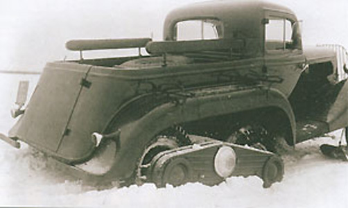 Soviet experimental half-track car GAZ-VM with pickup body during the state tests, 3/4 view.